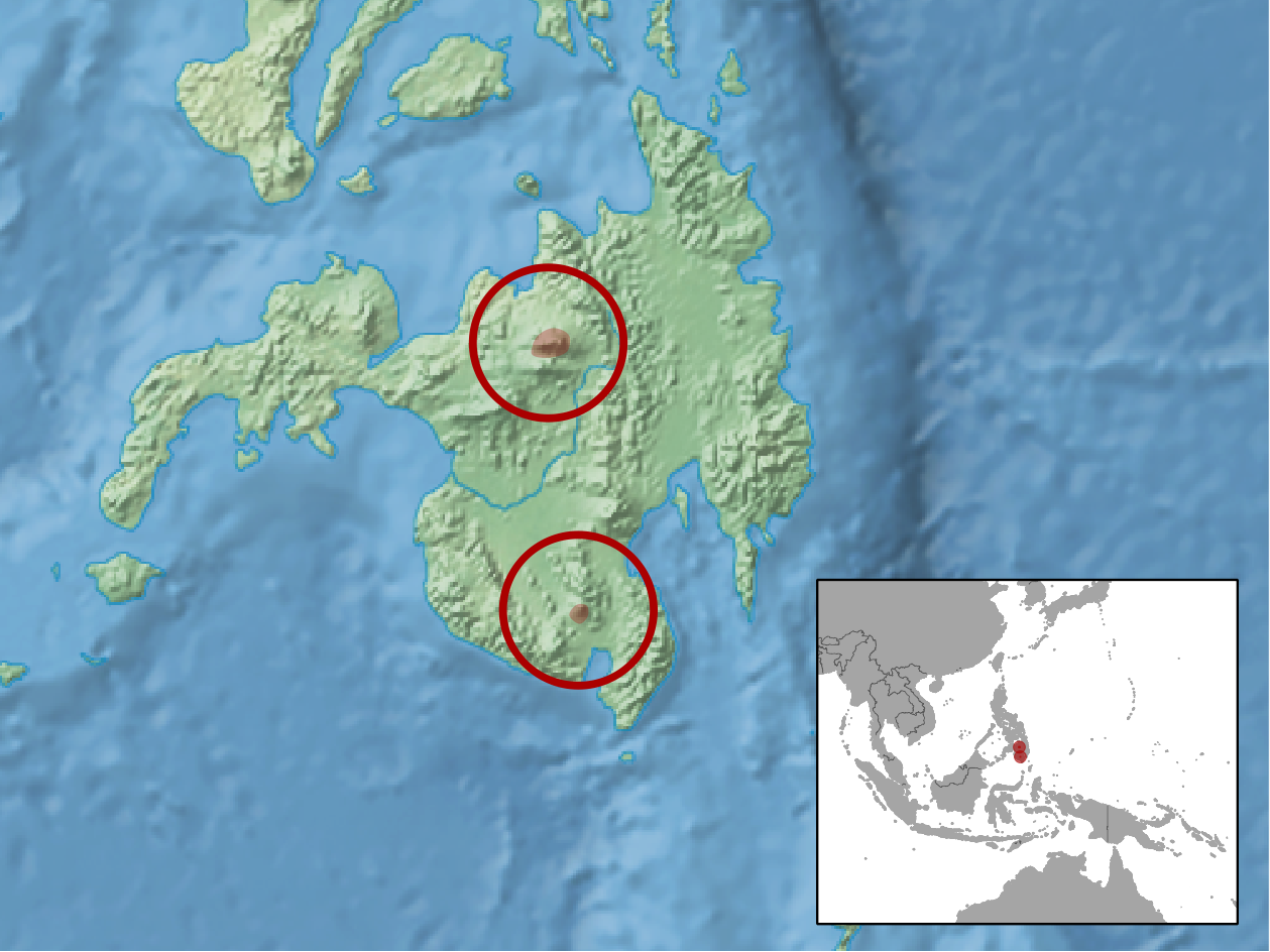 geographic distribution of Tarsomys echinatus